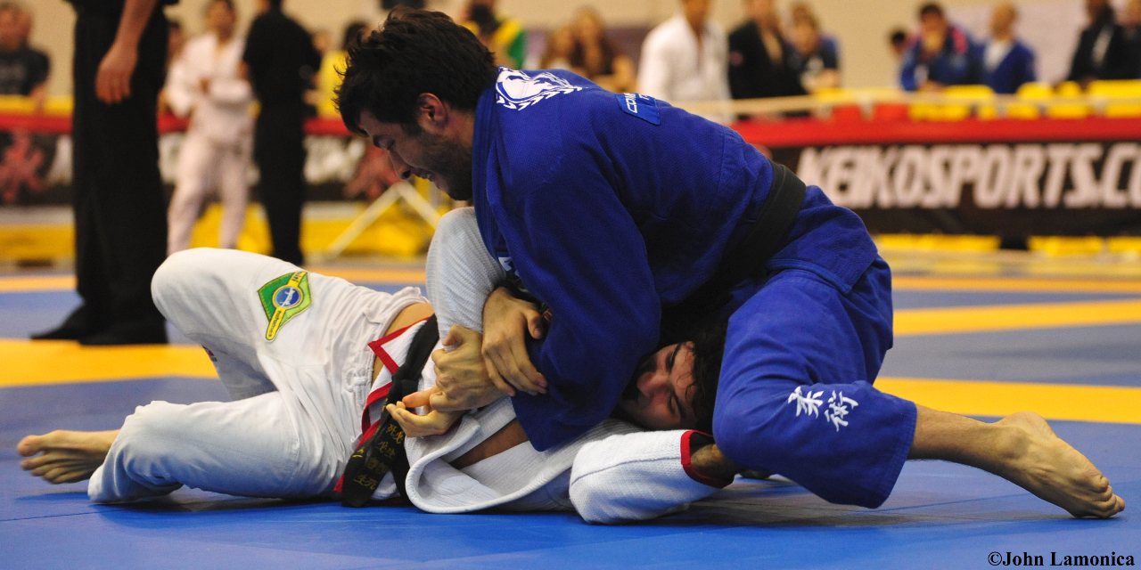 A match between Brazilian Jiu-Jitsu blackbelts Lucas Lepri and Gregor Gracie at the 2009 New York International Open Jiu-Jitsu Championship.